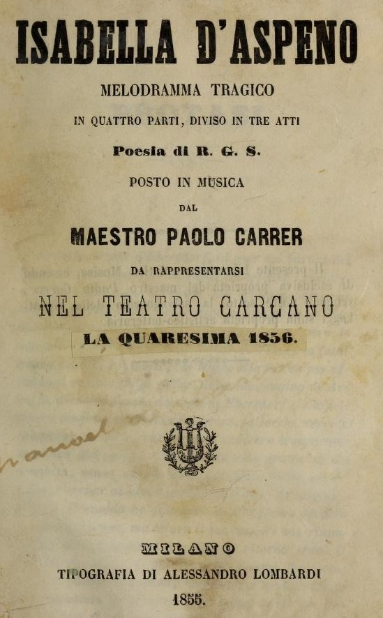 Title page of the libretto for Isabella d'Aspeno, an opera composed by Pavlos Carrer. This libretto was published for the opera's 1855/1856 performances at the Teatro Carcano in Milan. The libretto is by an unknown author who is credited only with the initials "R.G.S.".